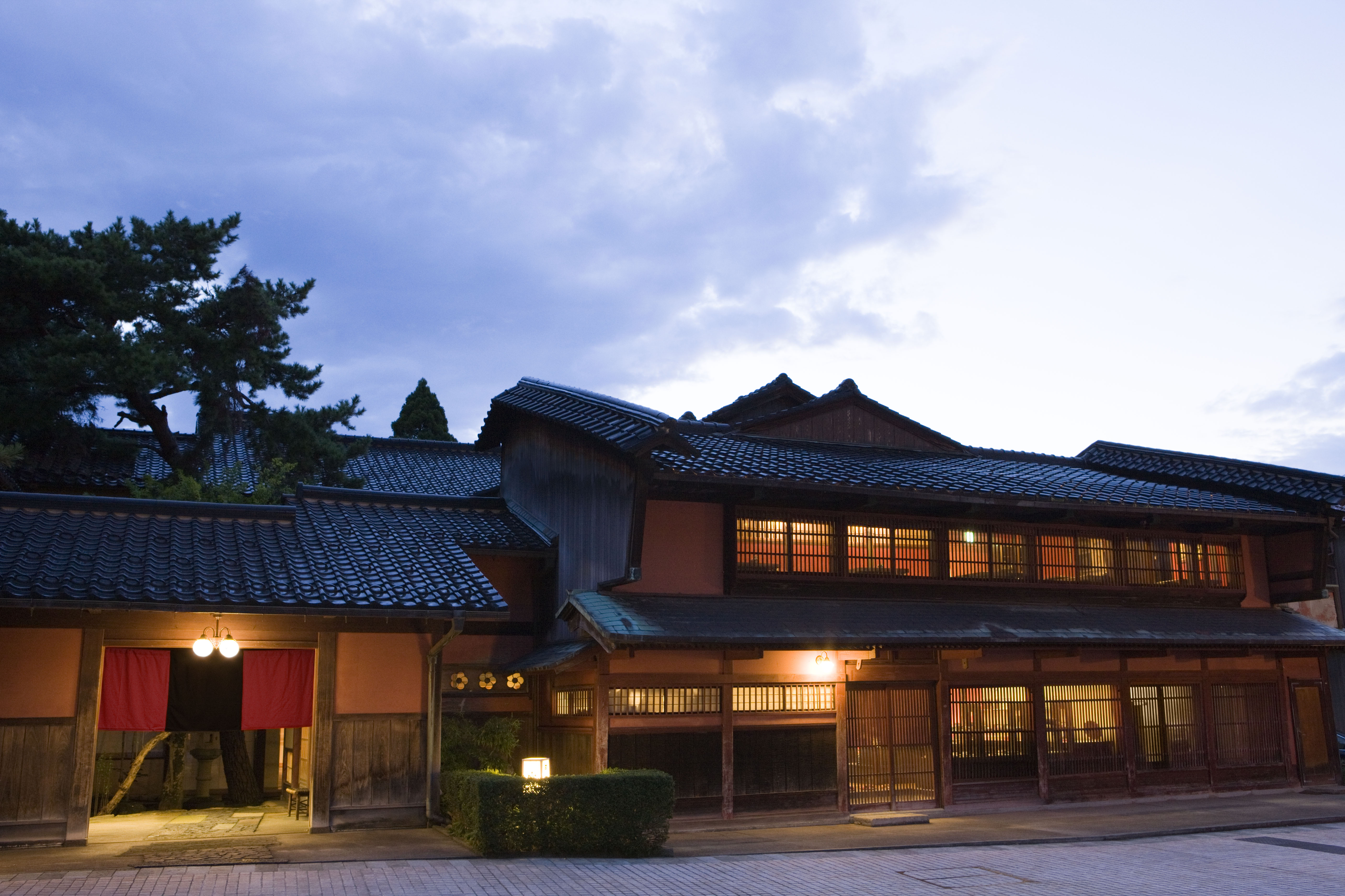 KAI Kaga's 380 years o;d building.